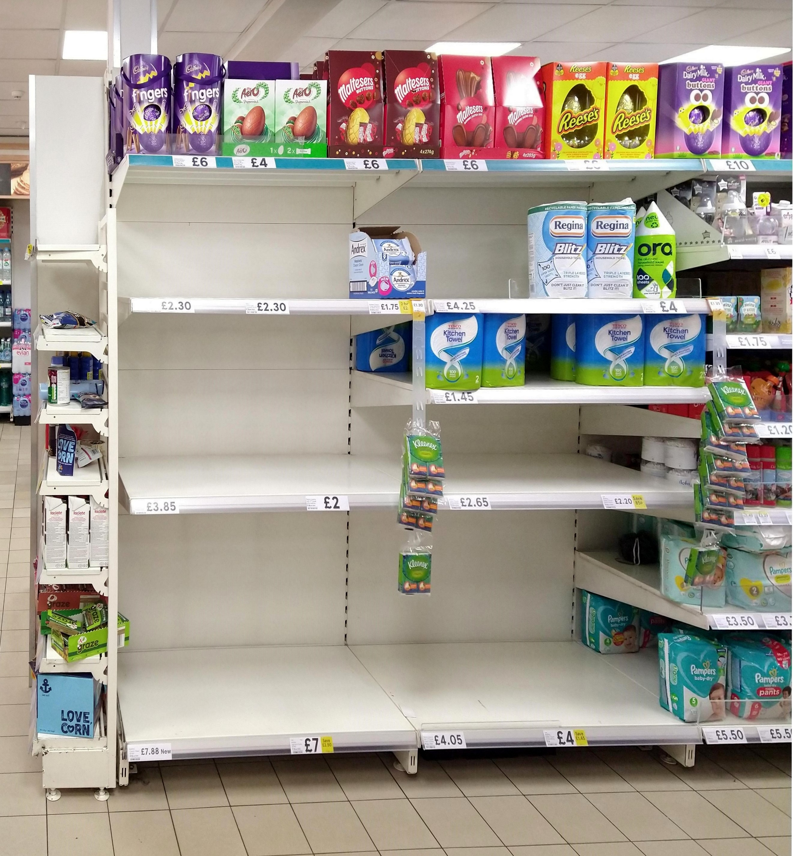 Easter eggs but no toilet paper, Tesco, north London 7 March 2020